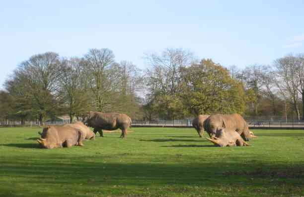 Whipsnade Zoo. The white rhinos are in a large paddock and this represents generally the rural scene.Ok if you have a car.